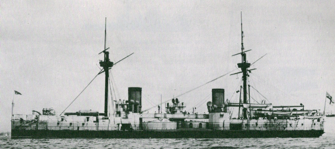 The British ironclad battleship HMS Inflexible while serving as guard ship at Portsmouth late in her career.